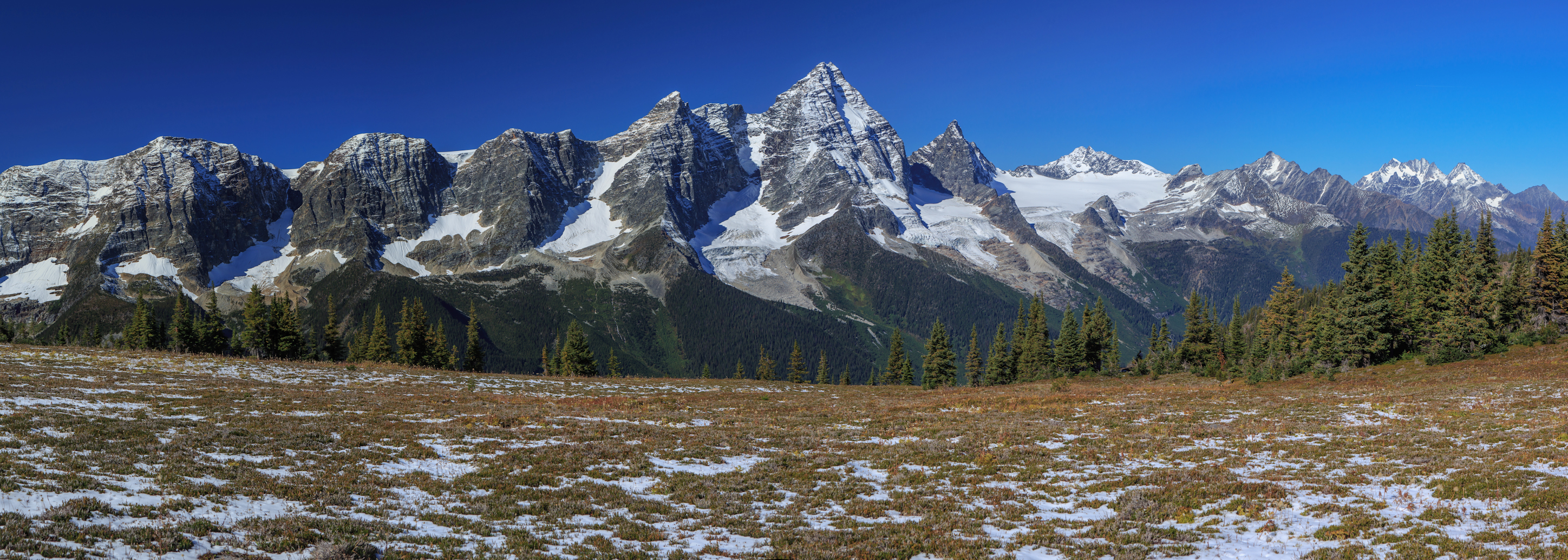 Mt Sir Donald range Panorama…from the East near Purcell Lodge